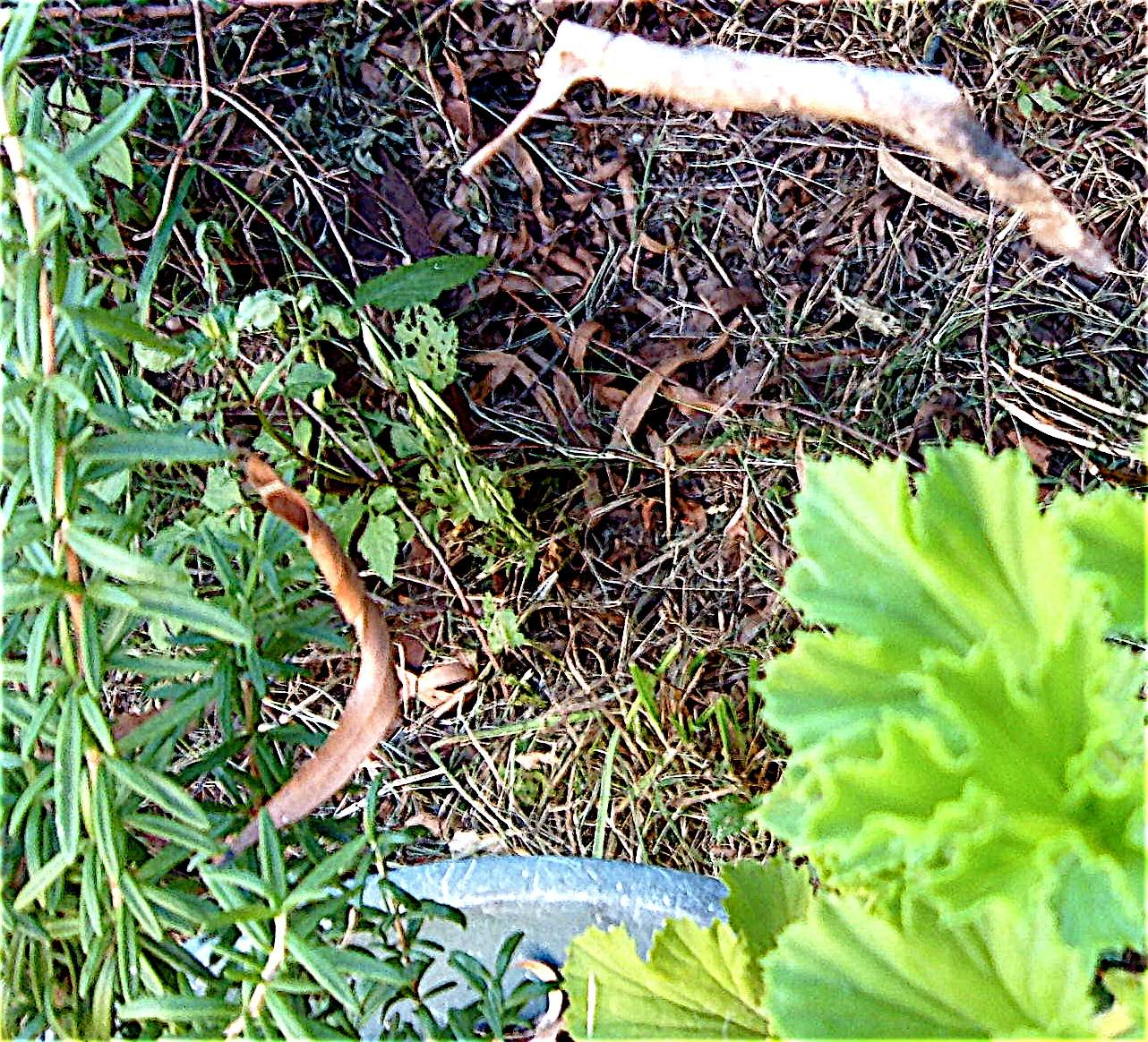 Potential mate P. graeffei in separate retreats sharing same web